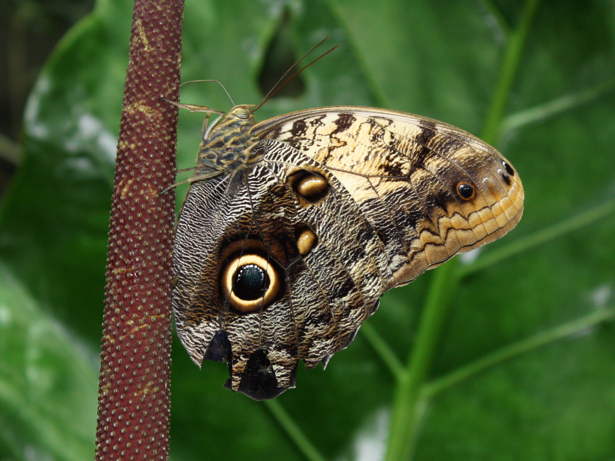 Caligo memnon